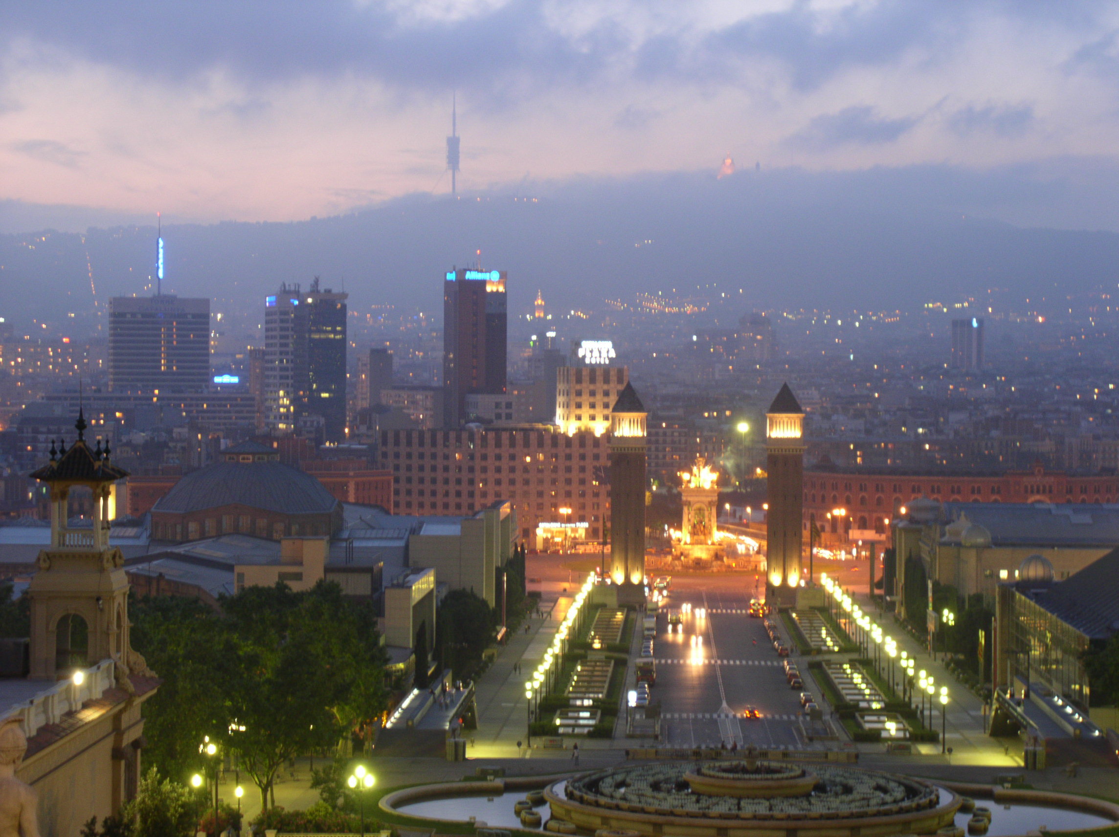 View from Palau Nacional towards Plaça d'Espanya, Barcelona.